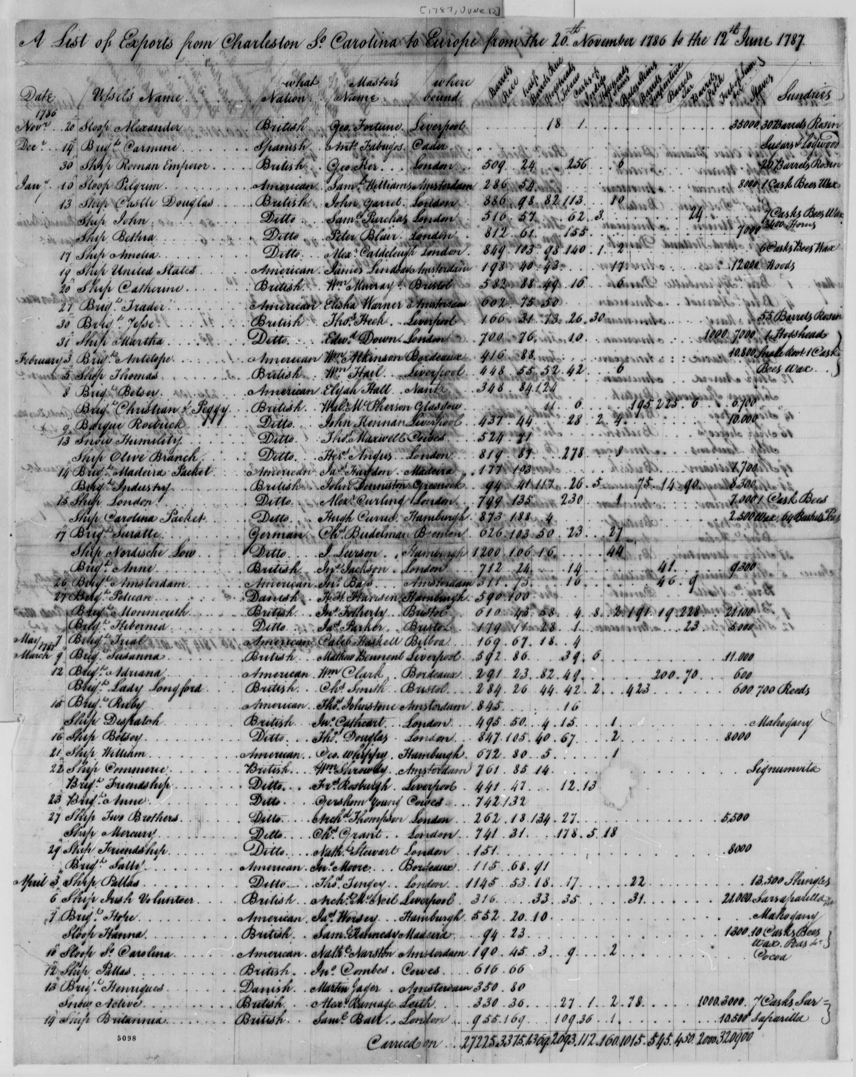 Manuscript of list of exports to Europe from Charleston, South Carolina, 1787. Thomas Jefferson Papers, General Correspondence, The Library of Congress, Washington, D. C.